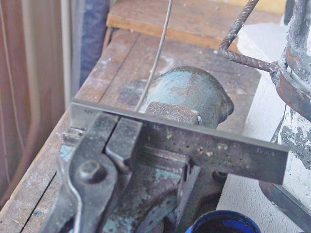 Drawing a silver wire with a drawplate by hand-pulling.